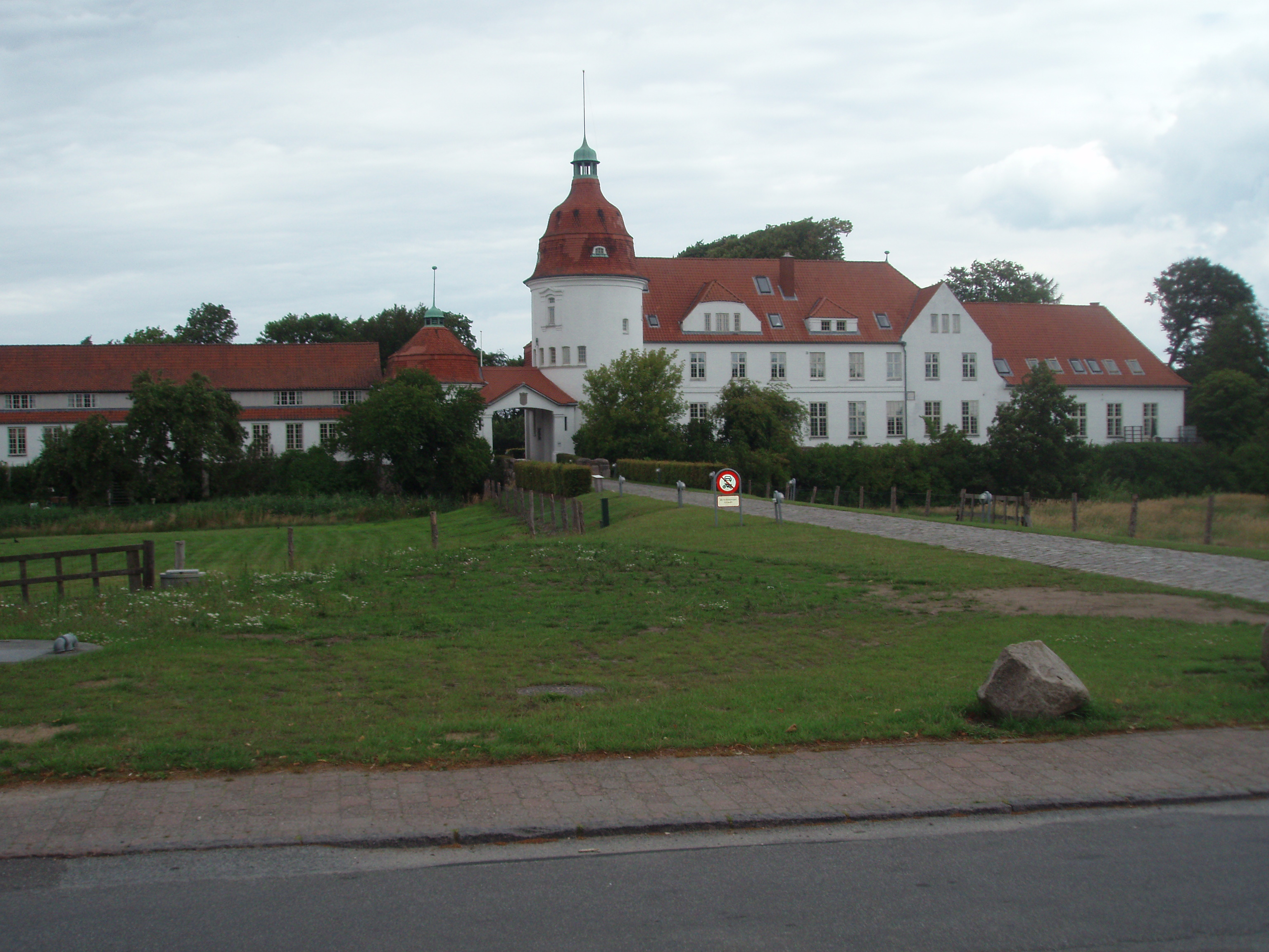 Nordborg Slot